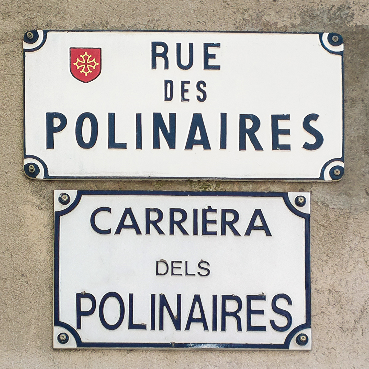 Street name sign in Toulouse. They have the particularity of being: in French and Occitan. Rue des Polinaires.